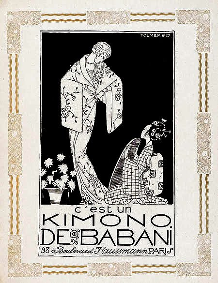 Advertisement from the early 1900s (1900-10) for Babani, Paris, showing a Western woman wearing a Japanese kimono (imported by Babani) observed by a Japanese woman sitting on the floor.